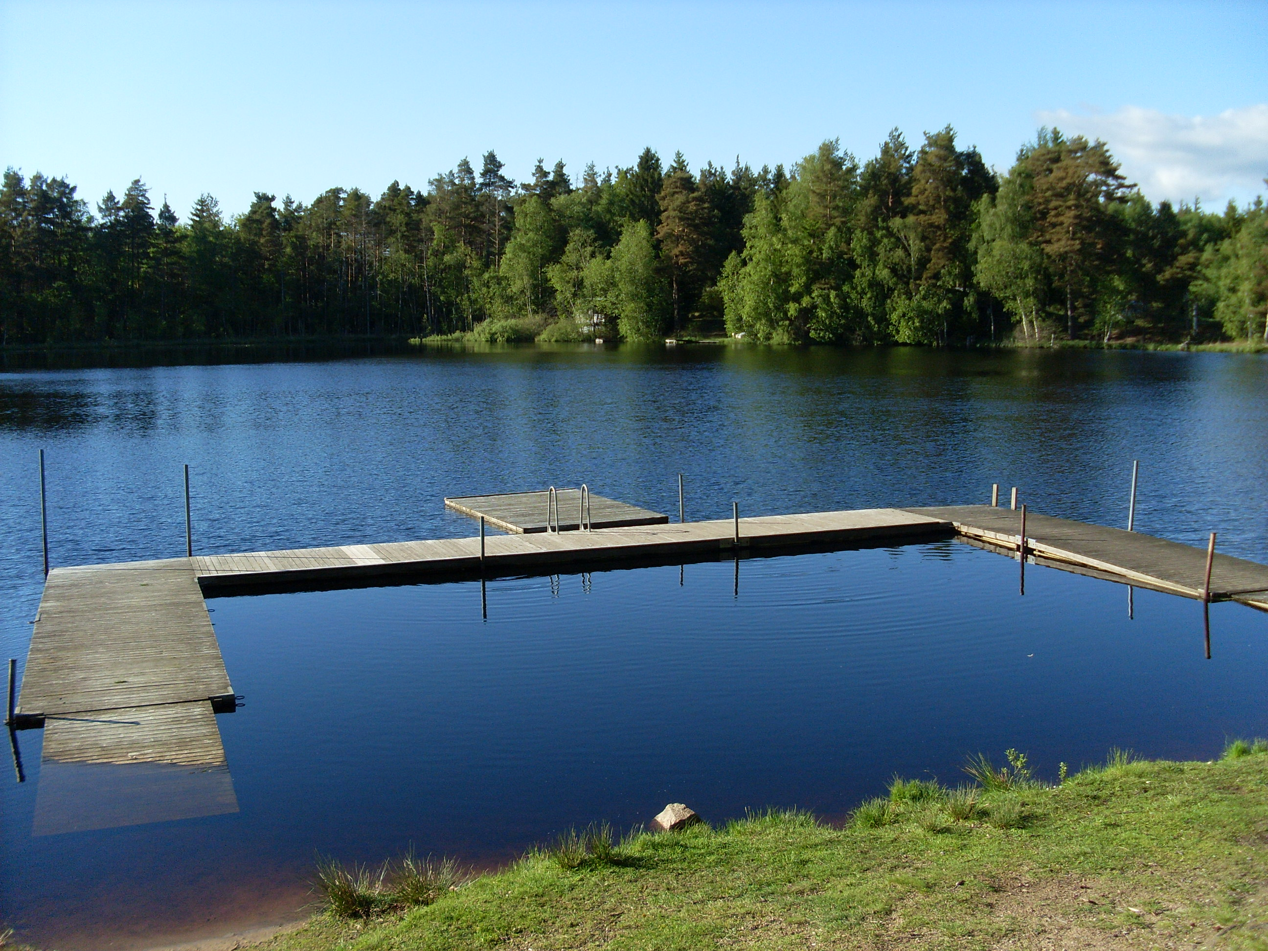 The lake Bandsjön in Skåne in southern Sweden.